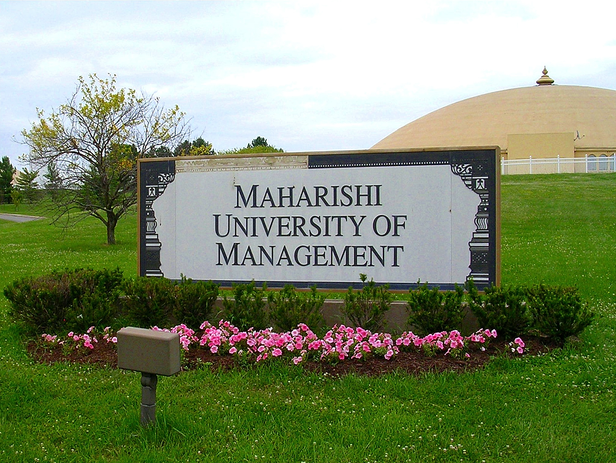 Maharishi University of Management, Fairfield IA, campus sign with "domes" in background. Photo taken and submitted by user Keithbob